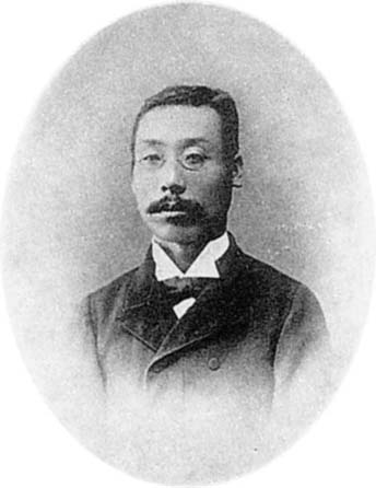 M. Wada, Librarian.